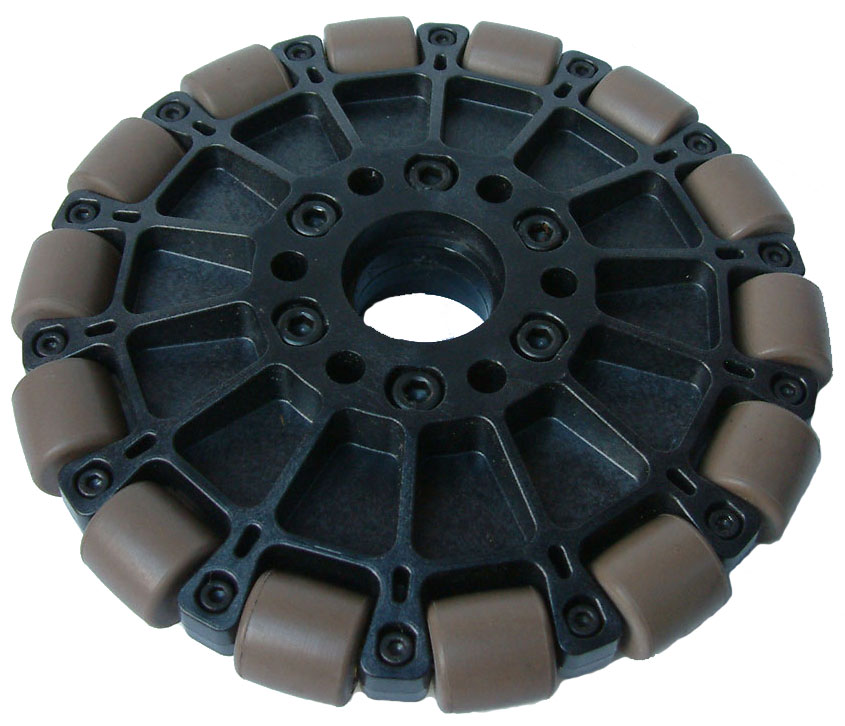 This is an AndyMark Inc. molded plastic Omni Wheel.